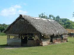 A traditional house in Niuafoʻou, 2003